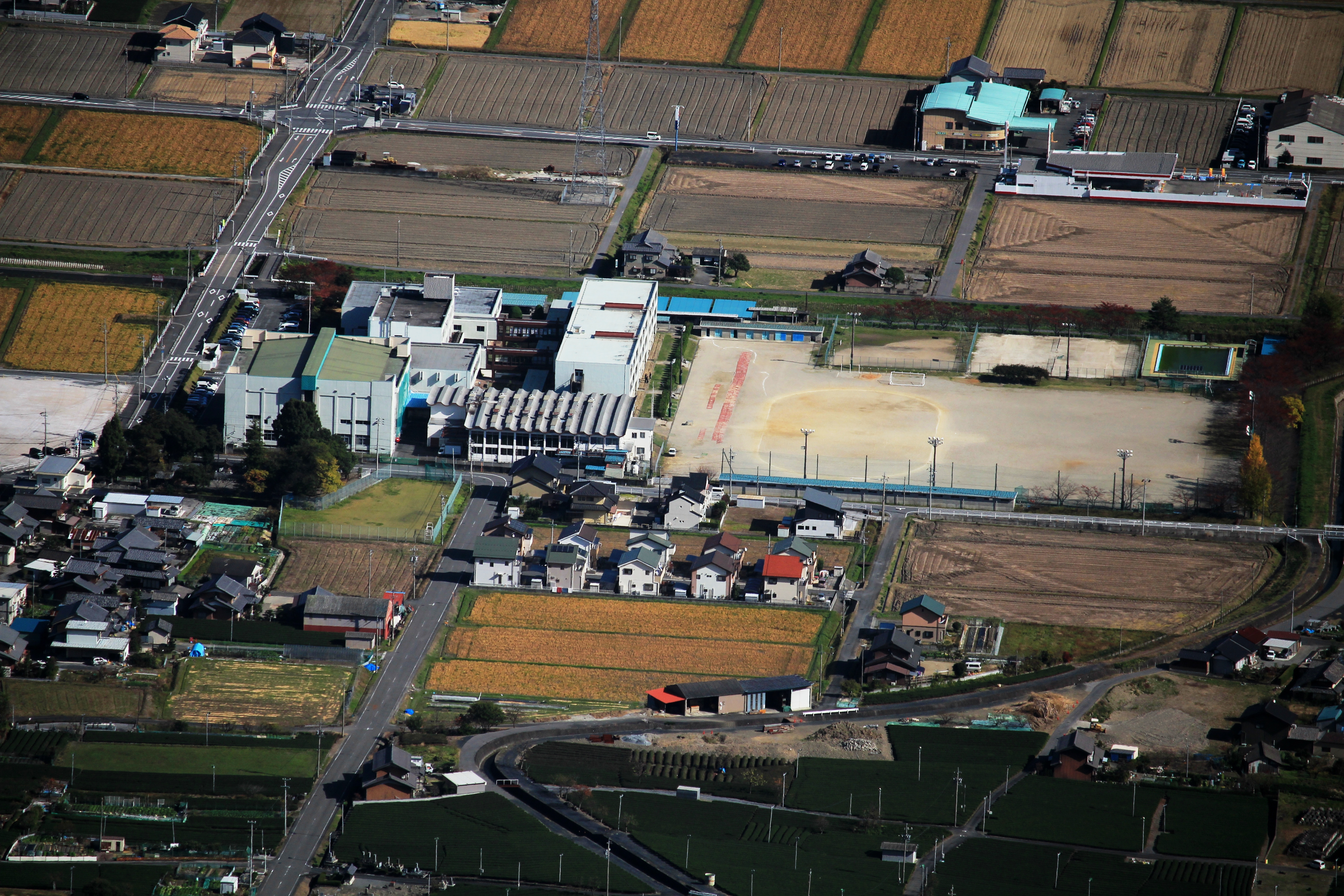 Ikeda Junior high school in Ikwda, Gifu prefecture, Japan, seen from Mount Ikeda